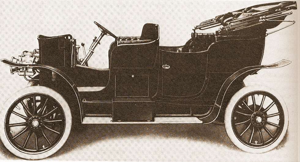 1907 NEC 15 hp tourer